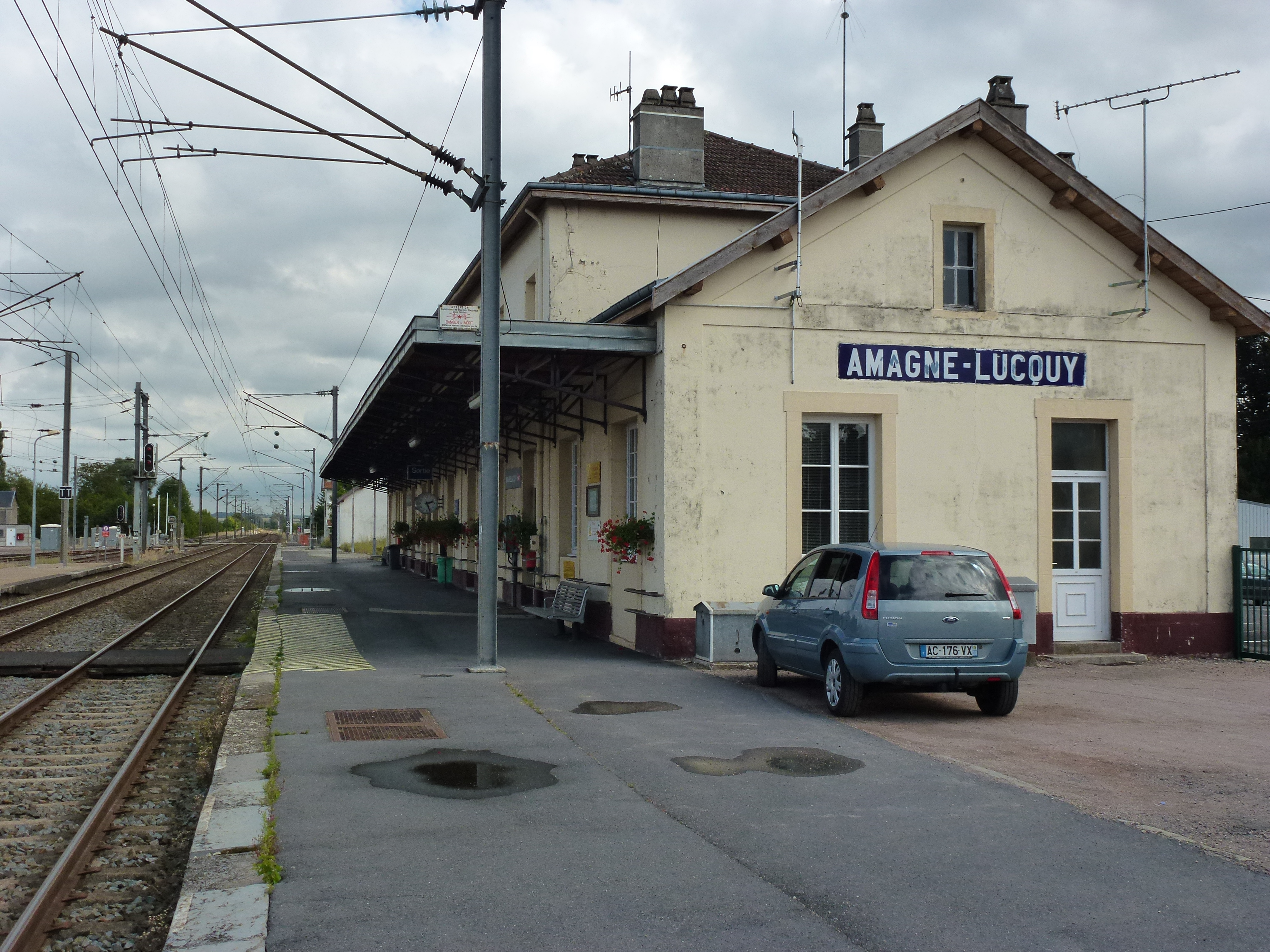 Lucquy (Ardennes) gare d'Amagne-Lucquy avec quais